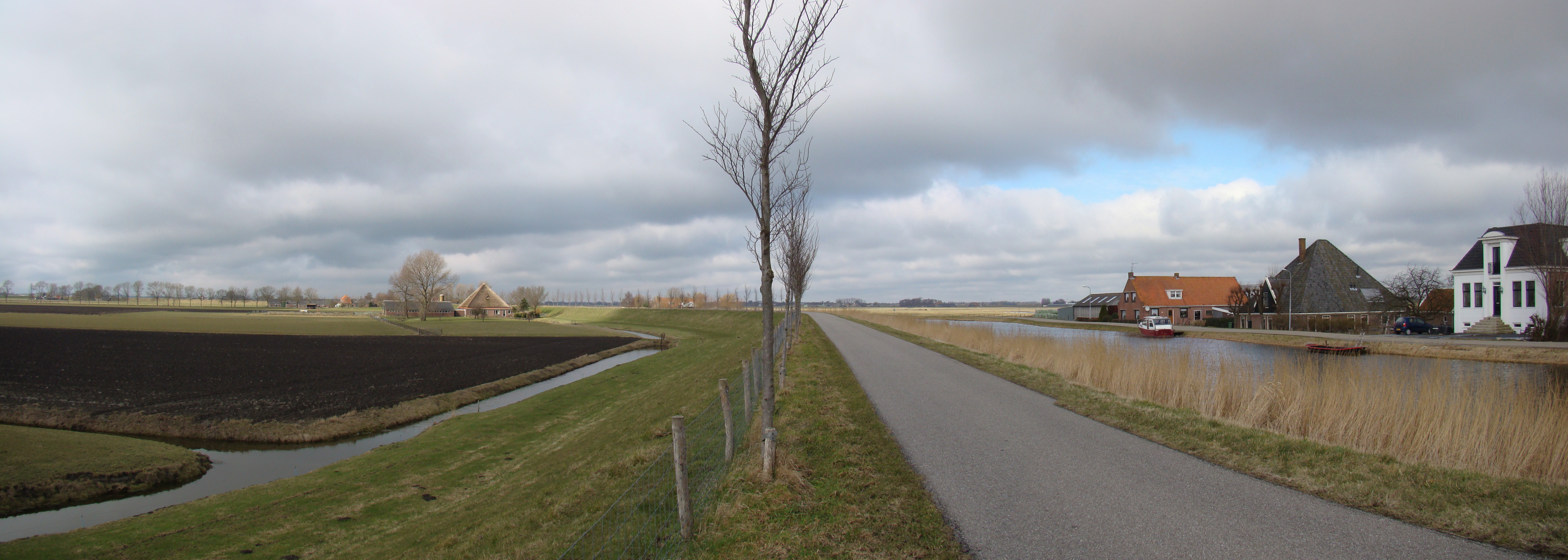 Northdike, Noth Beemster, Netherlands